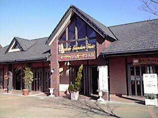 This is the Matsusaka Agricultural Park Bellfarm's English Garden's entrance in Matsusaka, Mie, Japan.